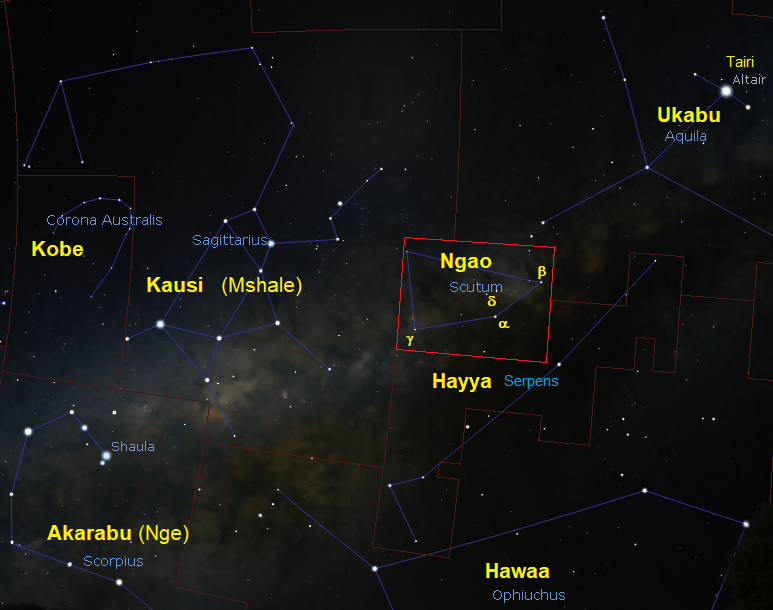 Constellation Scutum as seen from Tanzania, Swahili labelled Kiswahili: Kundinyota Ngao (Scutum) jinsi inavyoonekana kutoka Tanzania, majina kwa Kiswahili